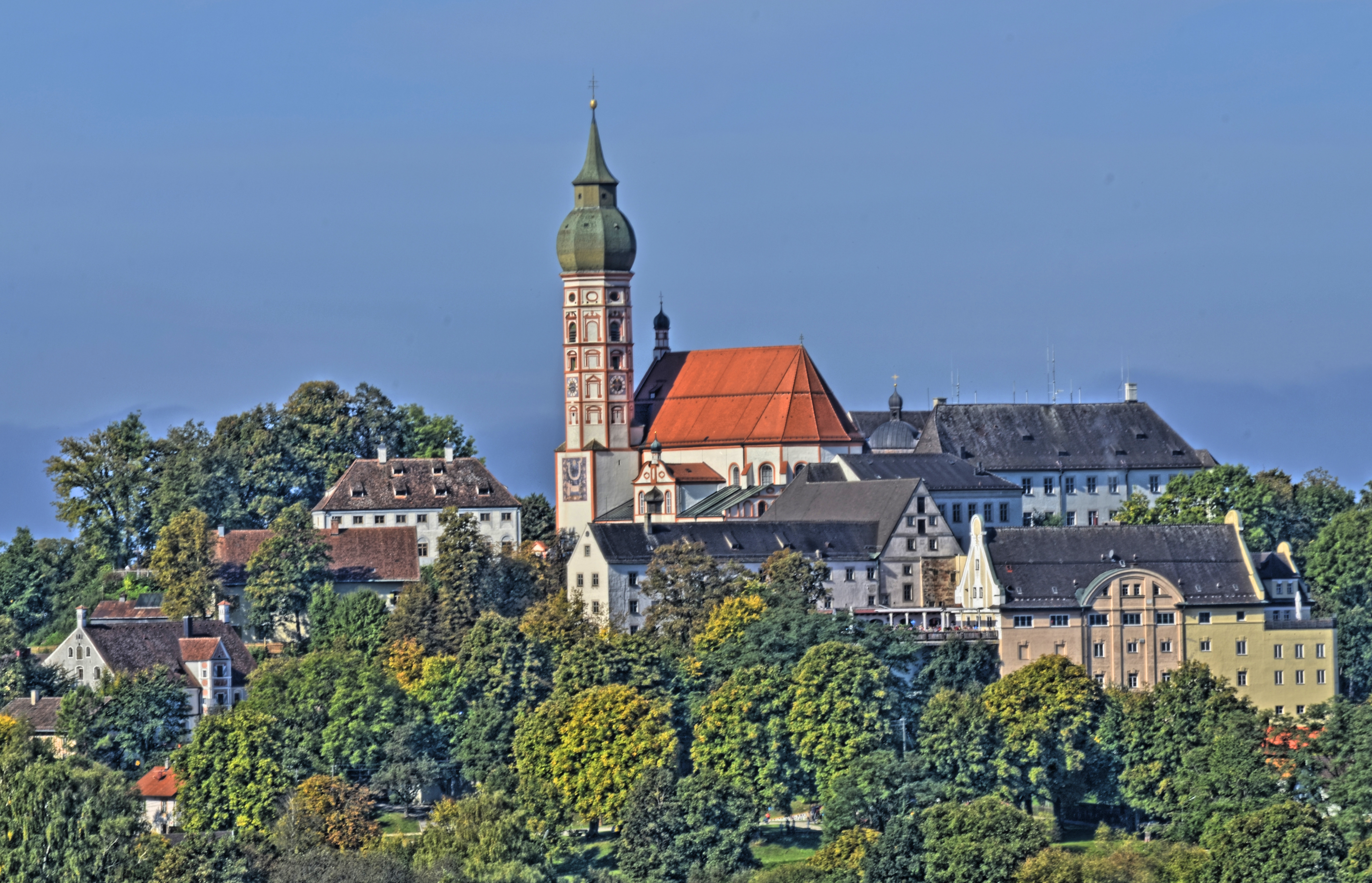 Monastery Andechs